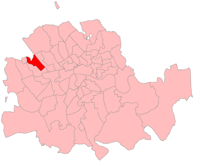 Paddington North Borough Counstituency as it existed from 1885 to 1918.